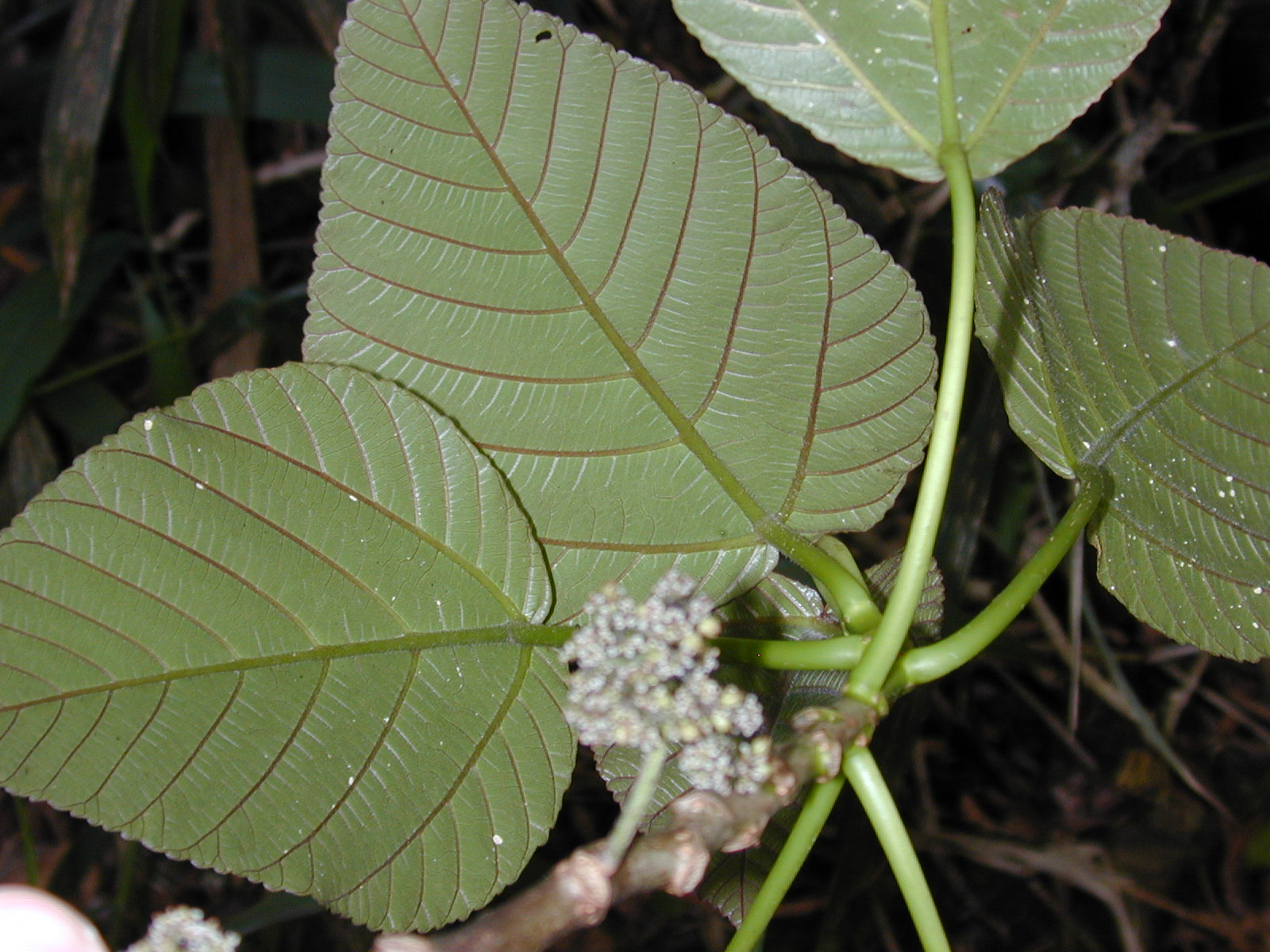 Urera glabra (leaves). Location: Maui, Makawao Forest Reserve